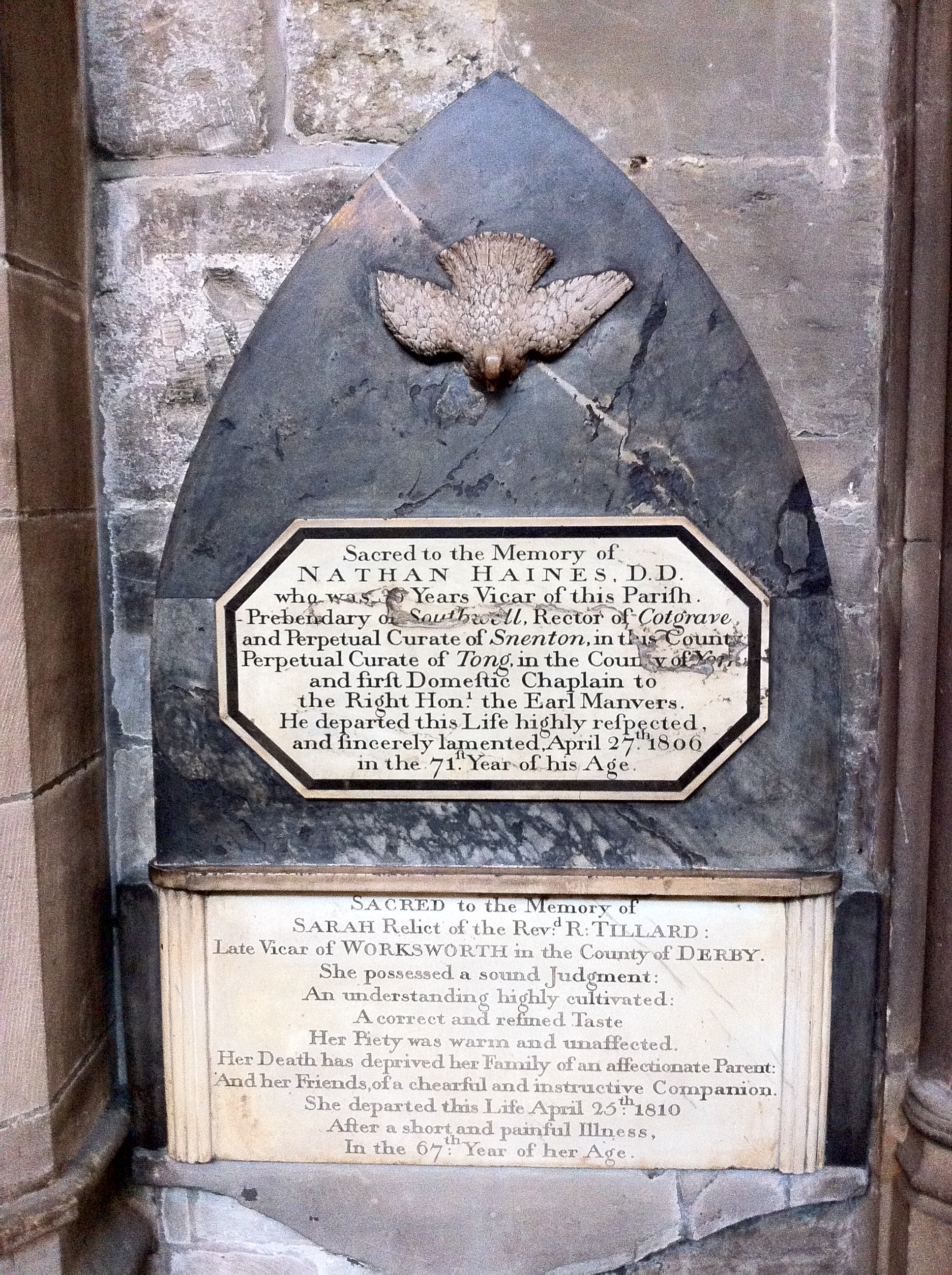 Memorial to Nathan Haines (d 27 April 1806), Vicar of St Mary's Church, Nottingham. Underneath, memorial to Sarah Tillard (d 25 April 1810), wife of the Vicar of Wirksworth.